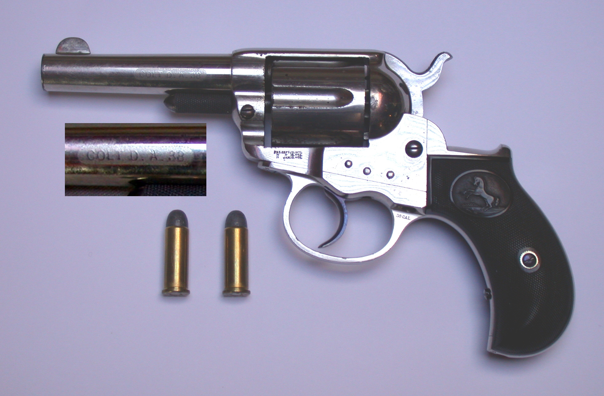 Colt Model 1877 Double Action "Lightning" cal .38 Long Colt, with etched barrel inscription